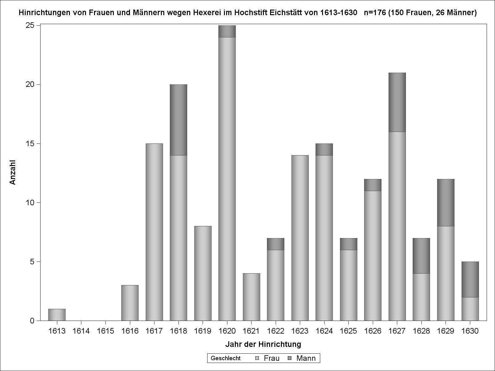 Number of executions for witchcraft per year in the Bishopric of Eichstätt from 1613-1630 (n=176) by sex.